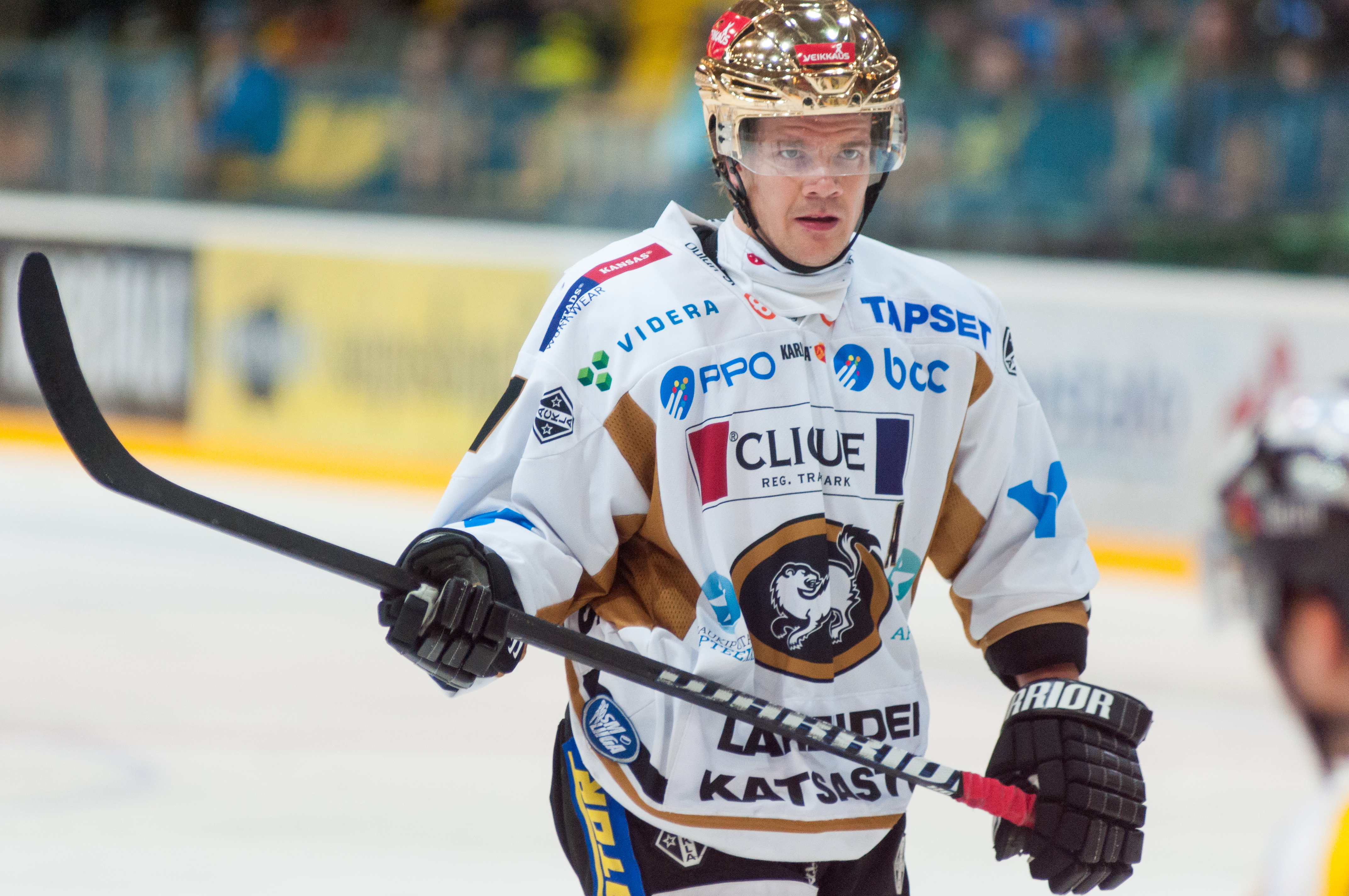 Juha Haataja of Oulun Kärpät playing against SaiPa Lappeenranta in Lappeenranta, Finland.